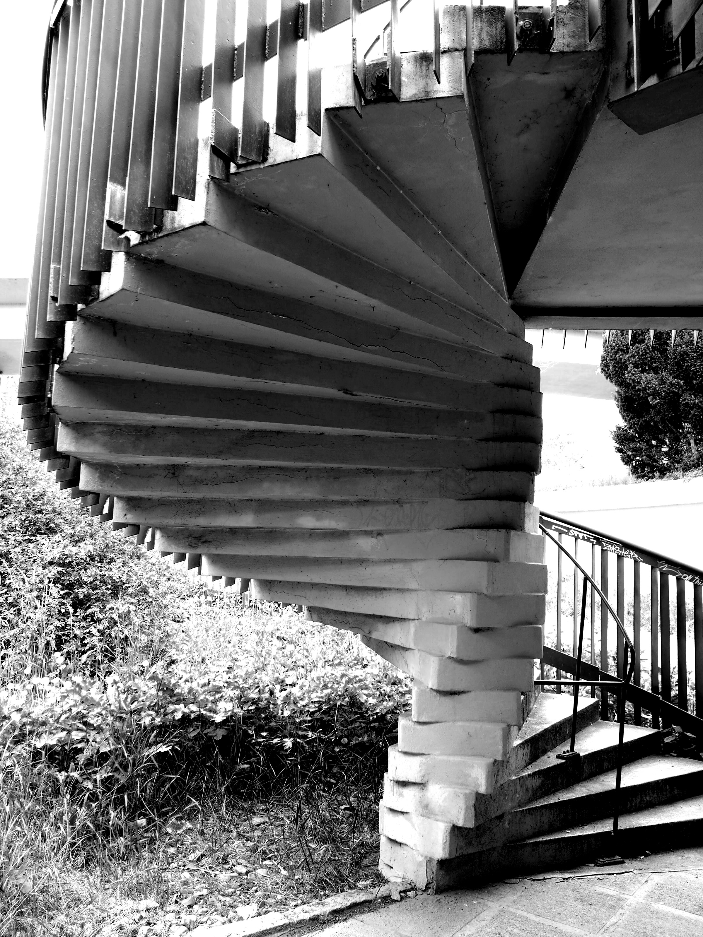 Straicase under the Barikádníků bridge in Prague